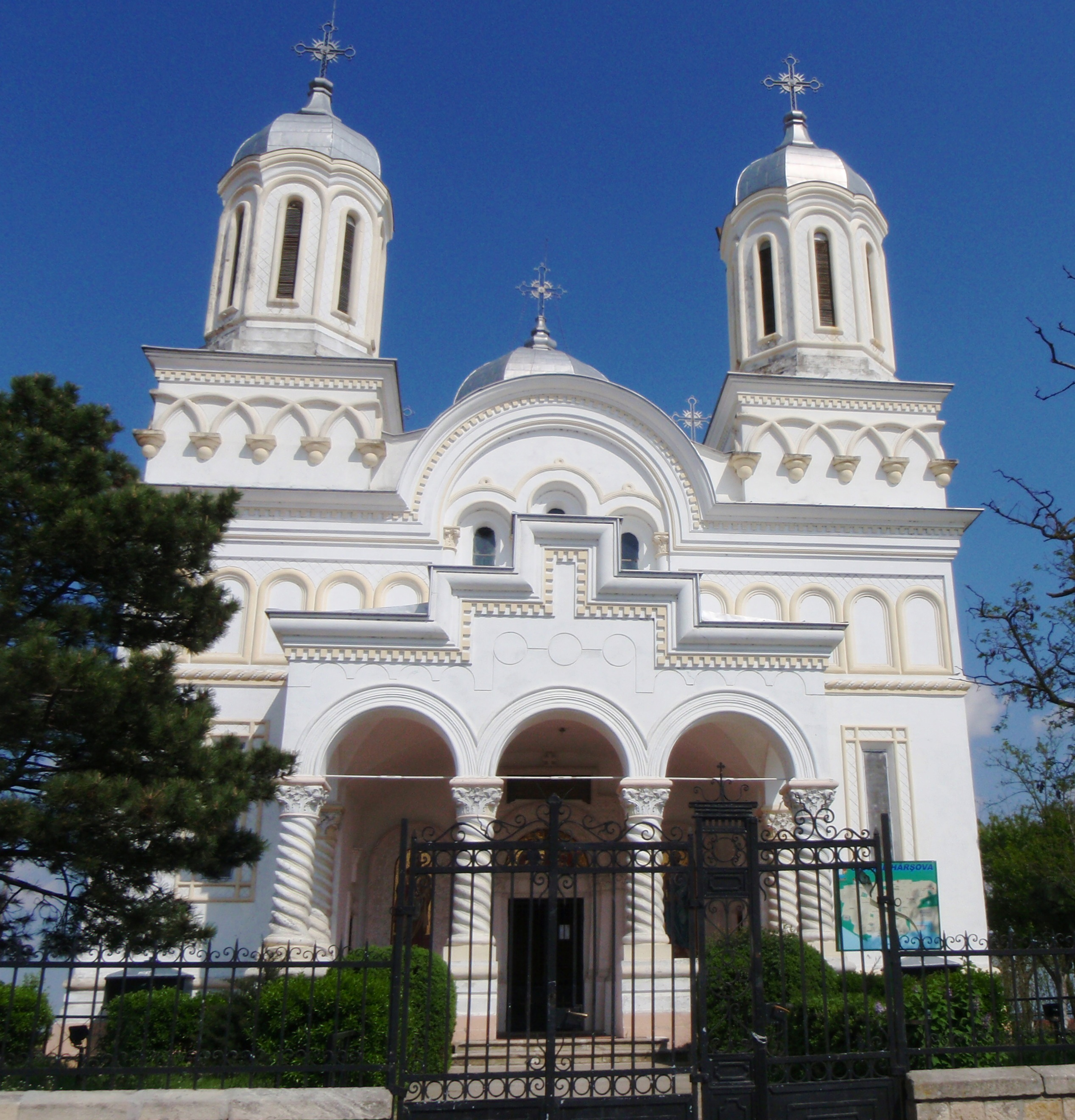 Church in the town of Hârşova, Constanta county, Romania. According to Haselshorst and Dittmann Die Donau ISBN 978-3-89225-586-4, is this a lippovani church.